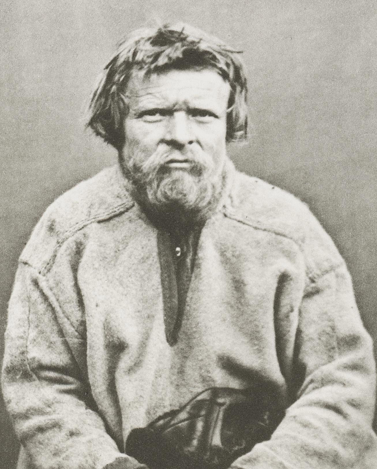 A photo of the Sami man Anders Andersen Ellen from Varanger in Finnmark, Norway. This is part of about 100 Anthropological portraits of the Sami or Laplander people by Prince Roland Bonaparte. Published in 1884. The photos are from the present central Saami areas in Norway, Sweden, Finland and Russia. Et bilde av den samiske mannen Anders Andersen Ellen fra Varanger i Finnmark, Norge. Dette er et av omtrent 100 antropologiske portretter av samene tatt av Prins Roland Bonaparte. Publisert i 1884. Disse foto er fra sentral samiske områder i Norge, Sverige, Finland og Russland.